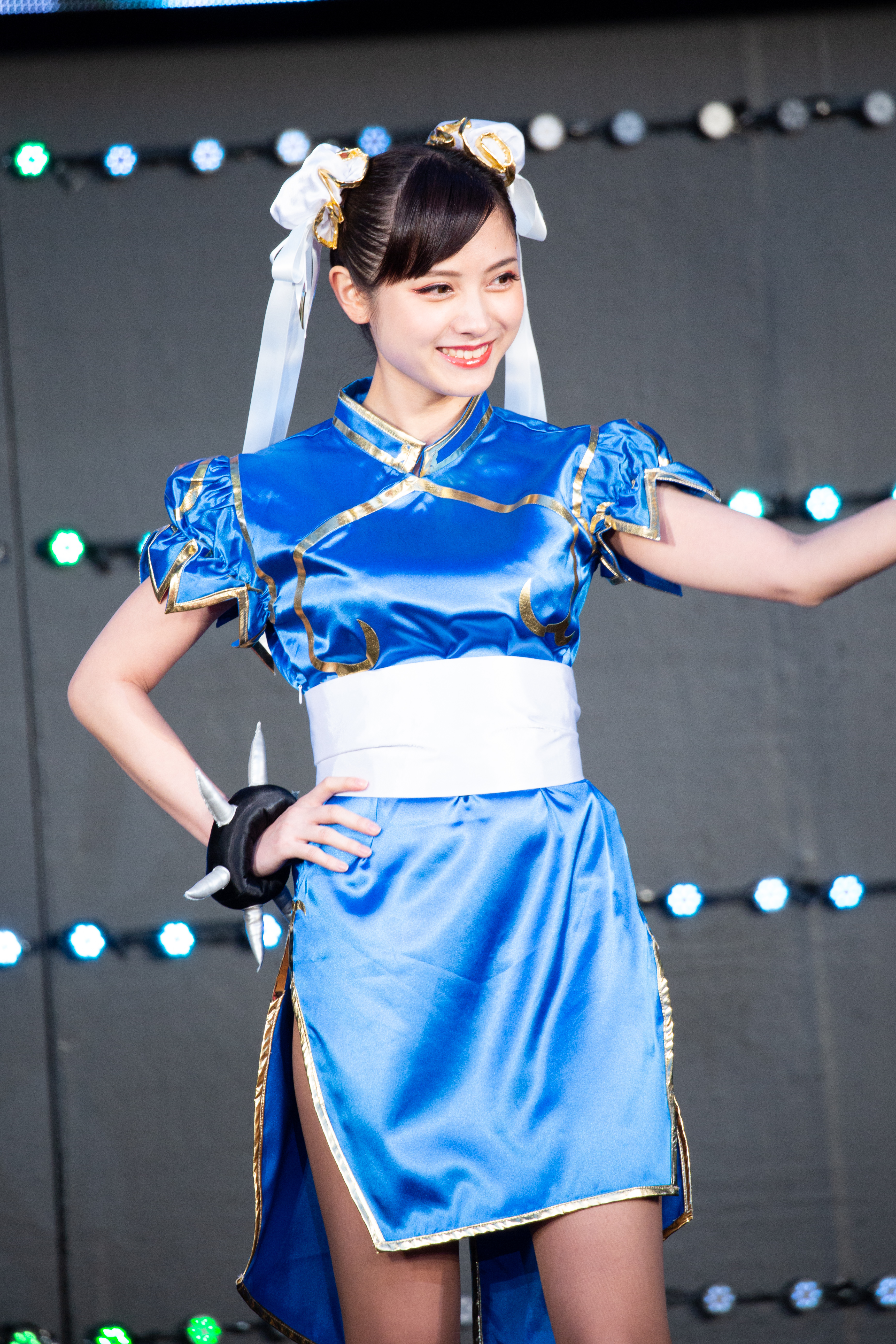 Cosplayer Nashiko Momotsuki dressed as Chun Li at the premiere of Ready Player One in Japan